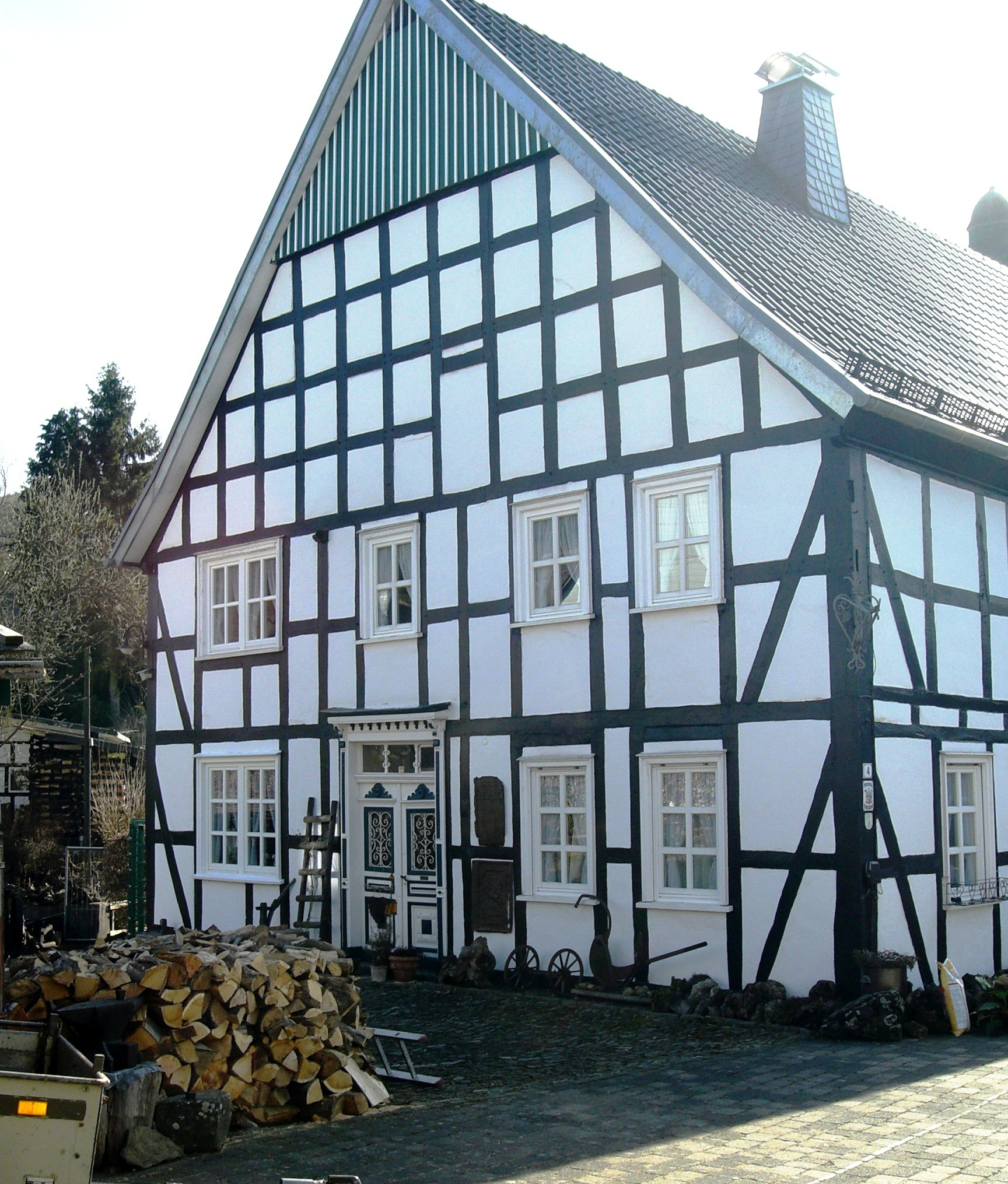 A two-storey, timber-framed building at Grenzweg 4, Oberelspe, Lennestadt, in North Rhine-Westphalia, Germany. It is a Baudenkmäler (monument).